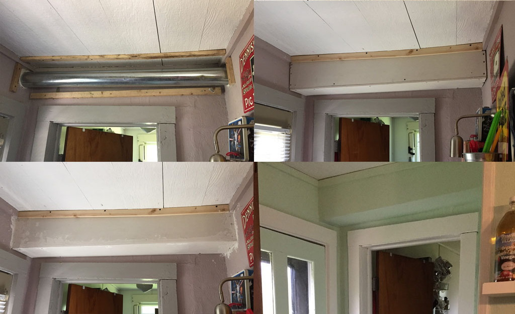 Four panels showing the construction and finishing of an improvised interior soffit used to hide a vent duct in Michigan.